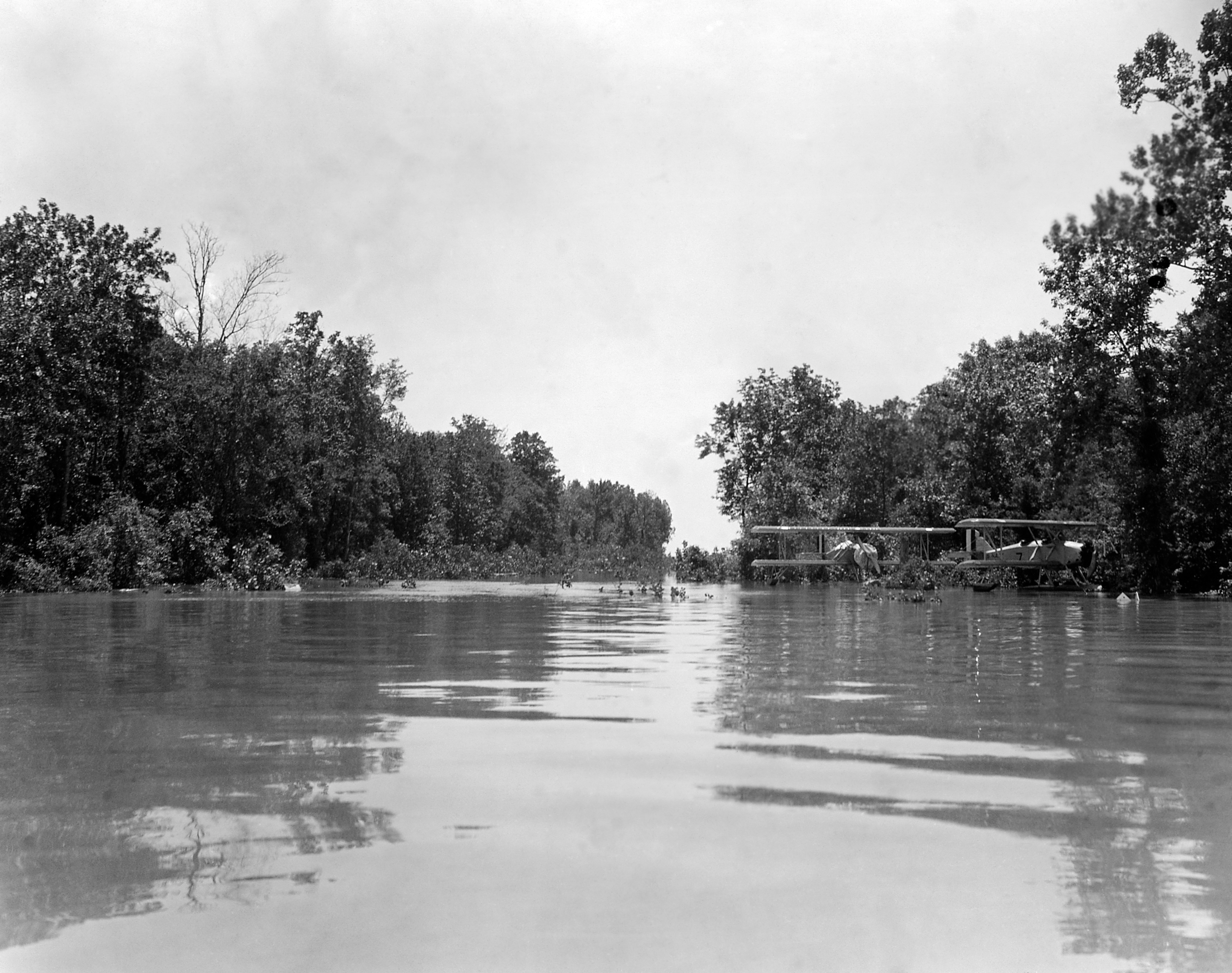 The aircraft are Boeing NB-1s in servise with the US Navy; the same float plane can be seen here. The US Navy sent thirty-two aircraft from US Naval Air Station Pensacola to help with disaster relief during the flood (source). (Discussion of aircraft type on enwiki.) Scope and content: Float planes are moored at the riverbank.